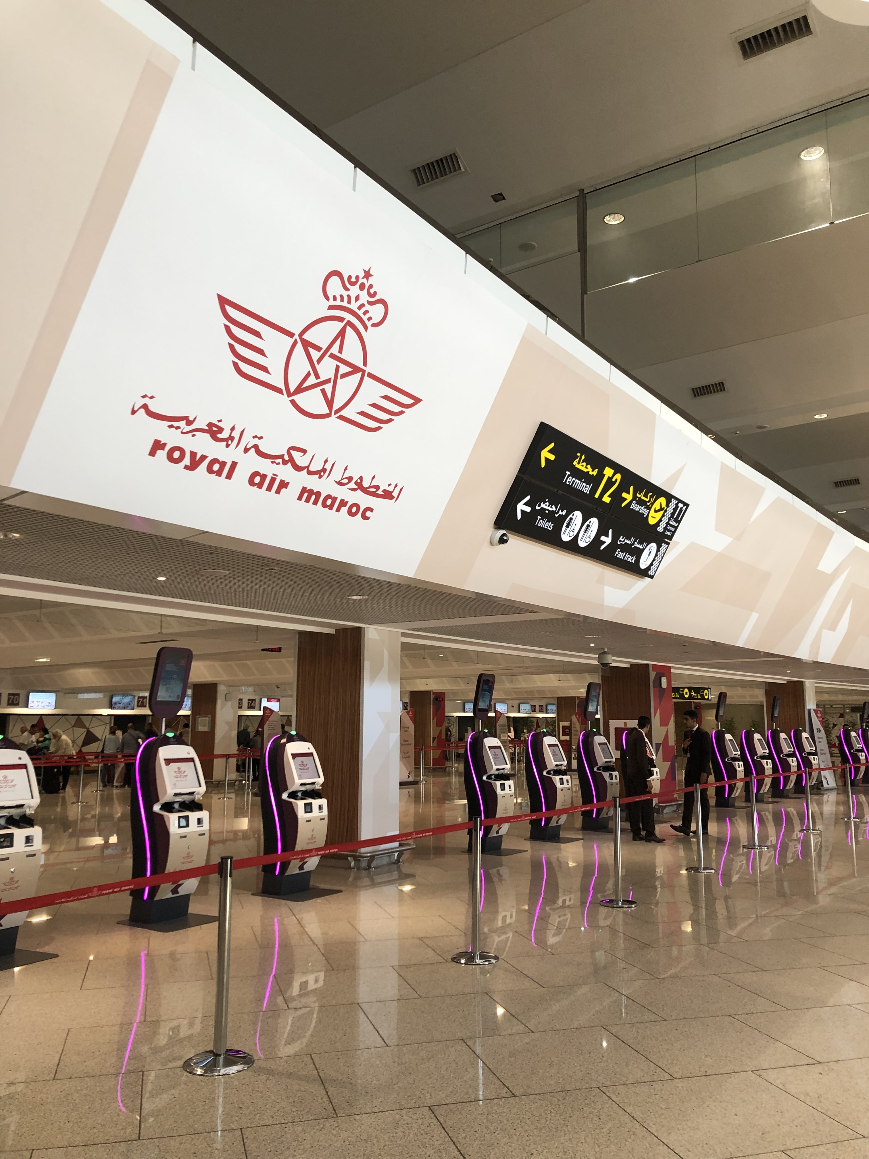 A photo of Terminal 1 at Mohammed V International Airport in Casablanca, Morocco.